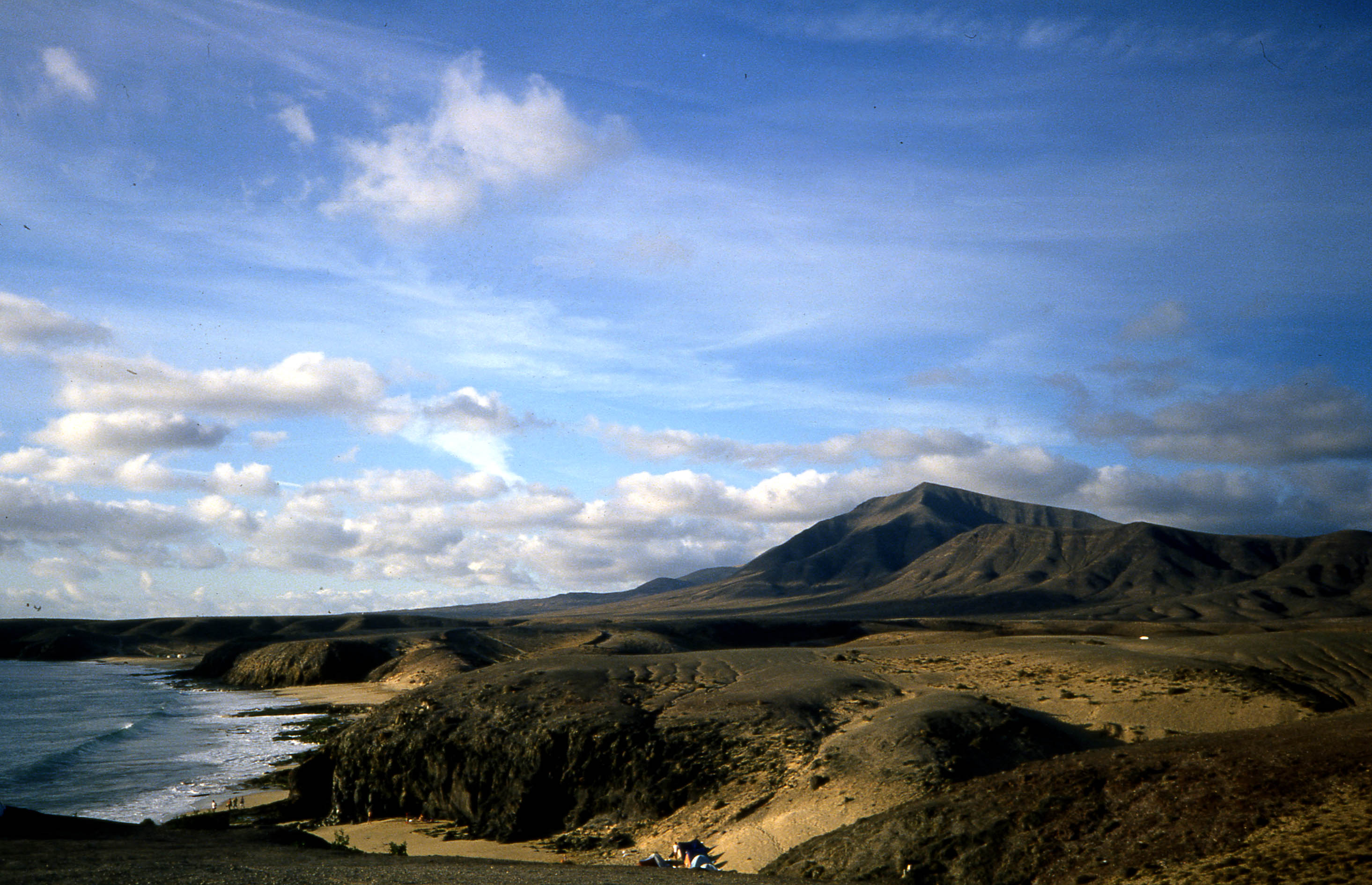 Ajaches mountains and playas del Papagayo (Costa del Rubicon)in the south of Lanzarote. Canary Islands, Spain.